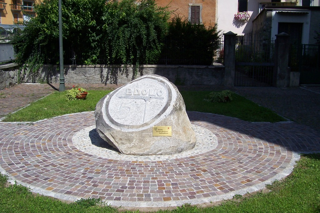 Battaglione Edolo, Val Camonica